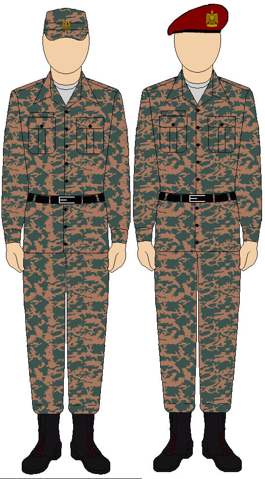 Egyptian Army Airborne camouflage uniform